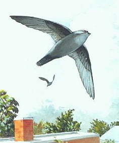 Chimney Swift